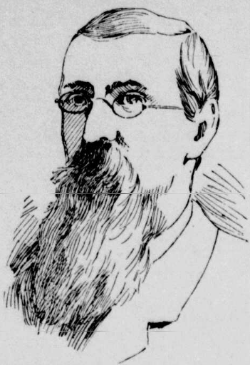 Alfred Milnes (Michigan Congressman)